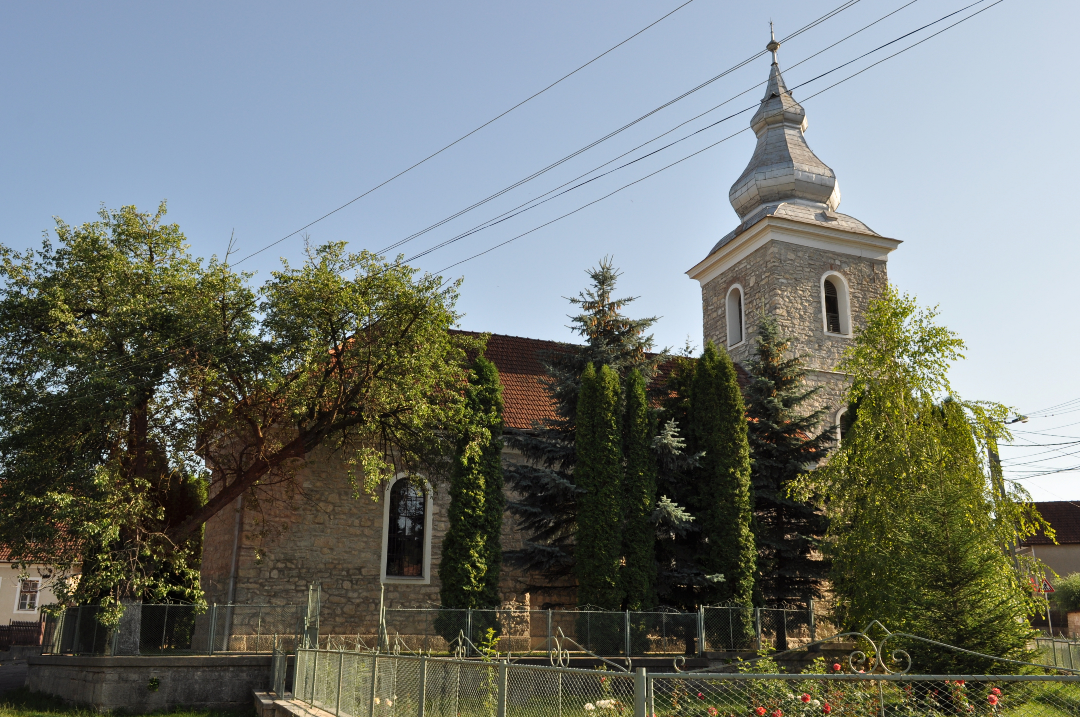 Jebucu (Zsobok), Sălaj county, Romania